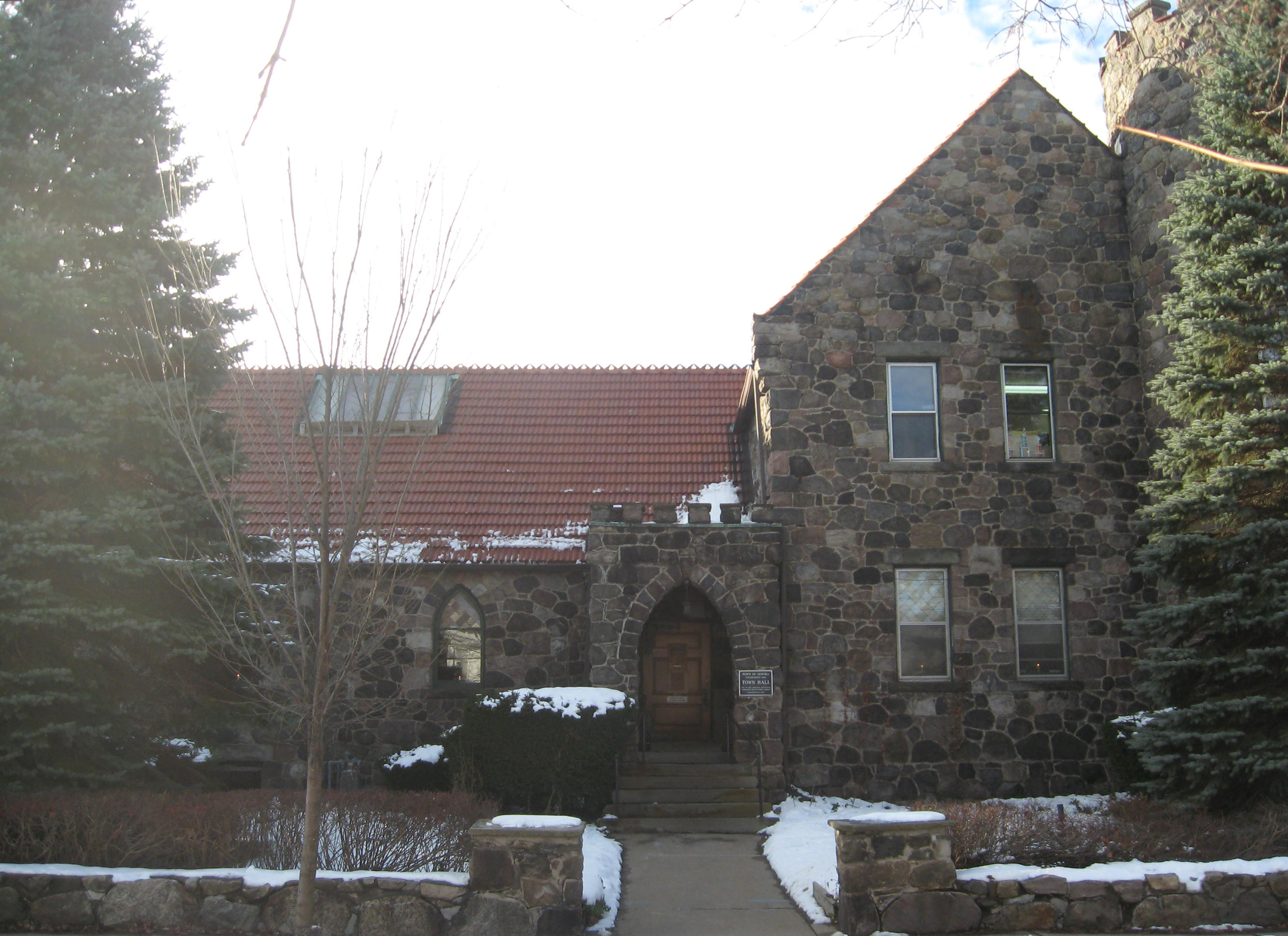 side of the Roycroft Town Hall Building, East Aurora, NY